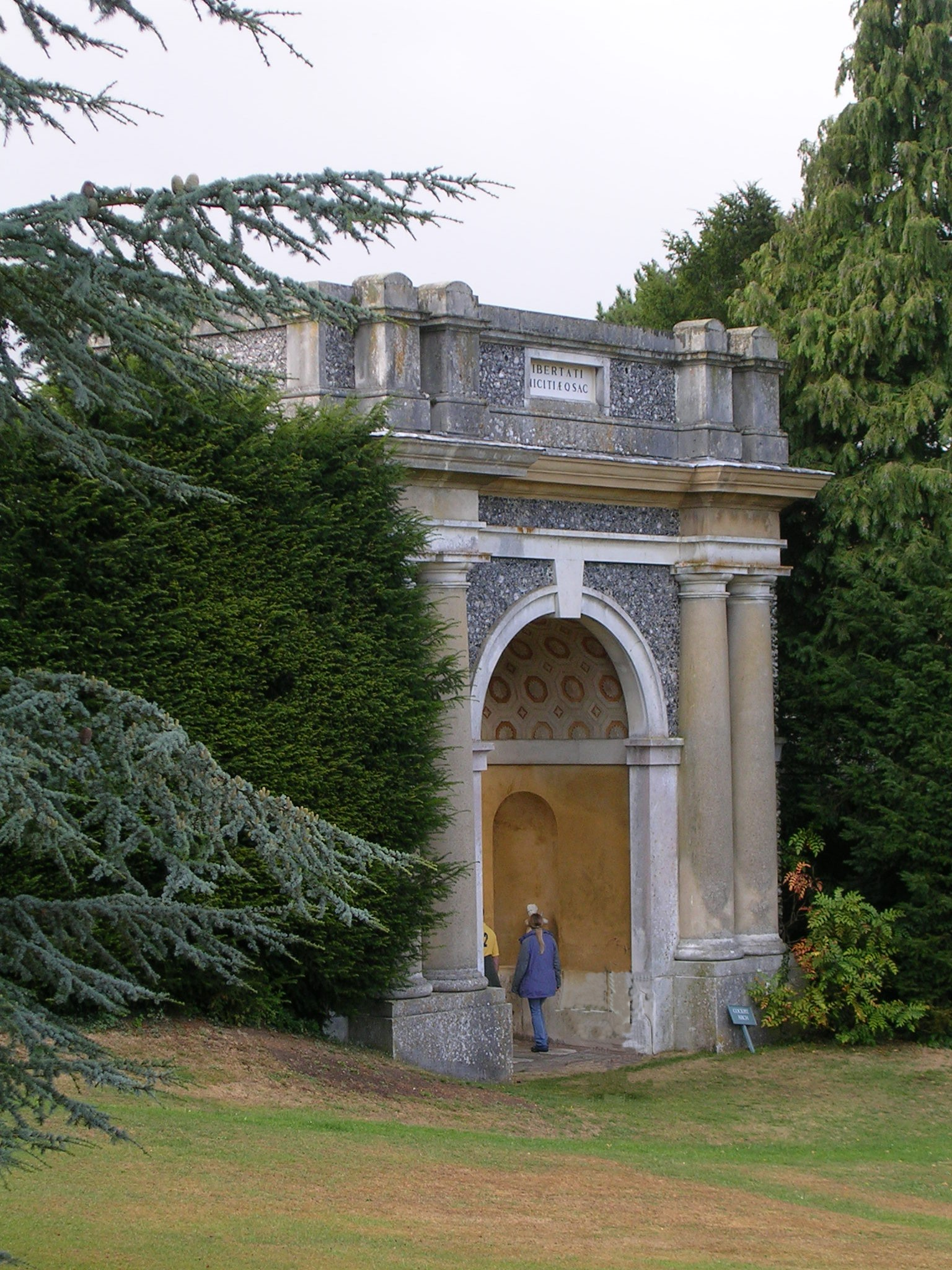 Temple at West Wycombe England photographed by uploader with a digital camera August 2006. Has been edited to remove a figure in the foreground of the arch.